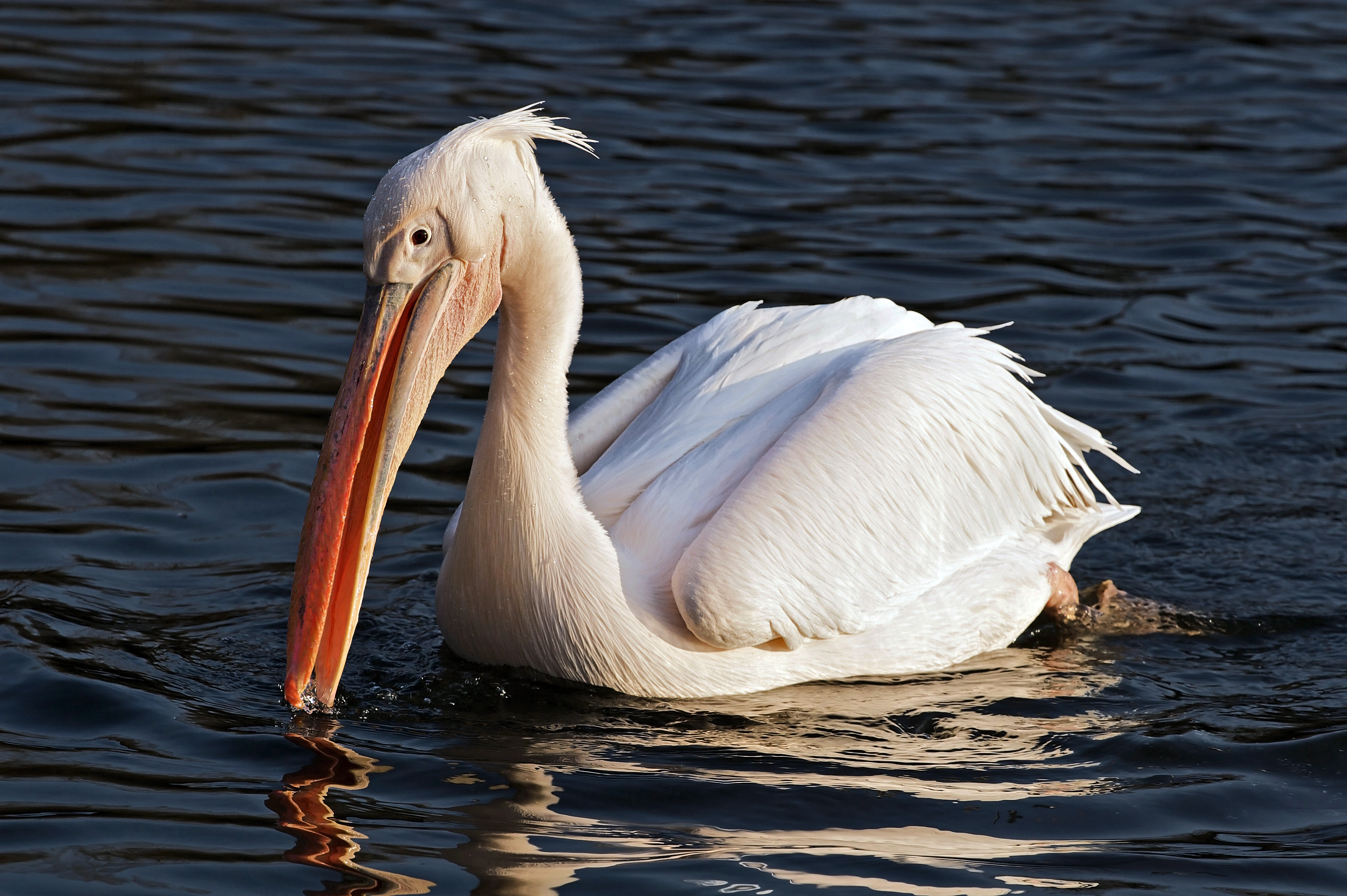 White Pelican Pelecanus onocrotalus swimming in St James's Park